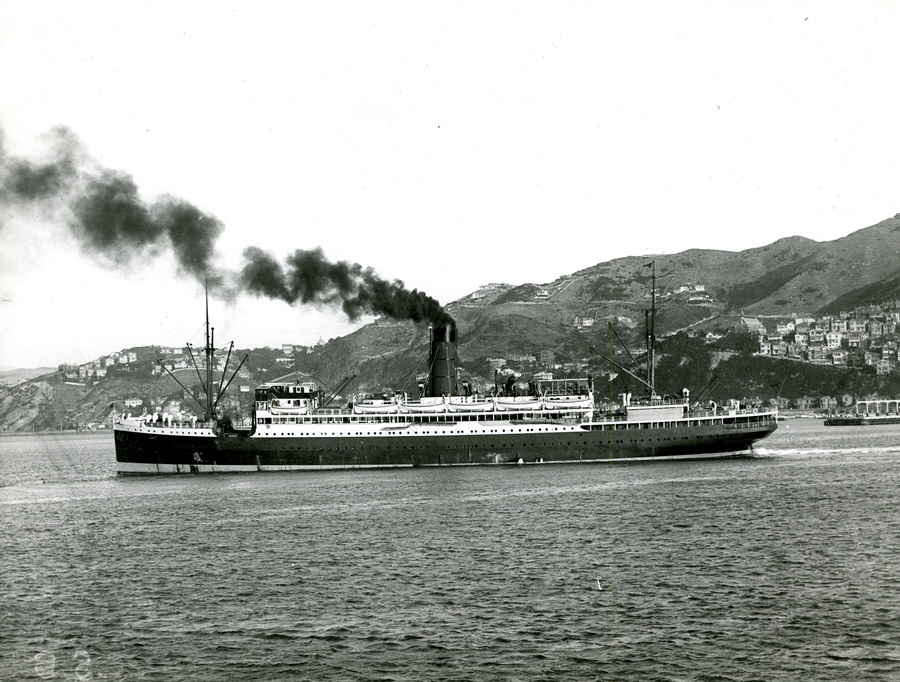 Photograph of SS Willochra. Author unknown, but from the Alexander Turnbull Library collection, which was established in 1918.